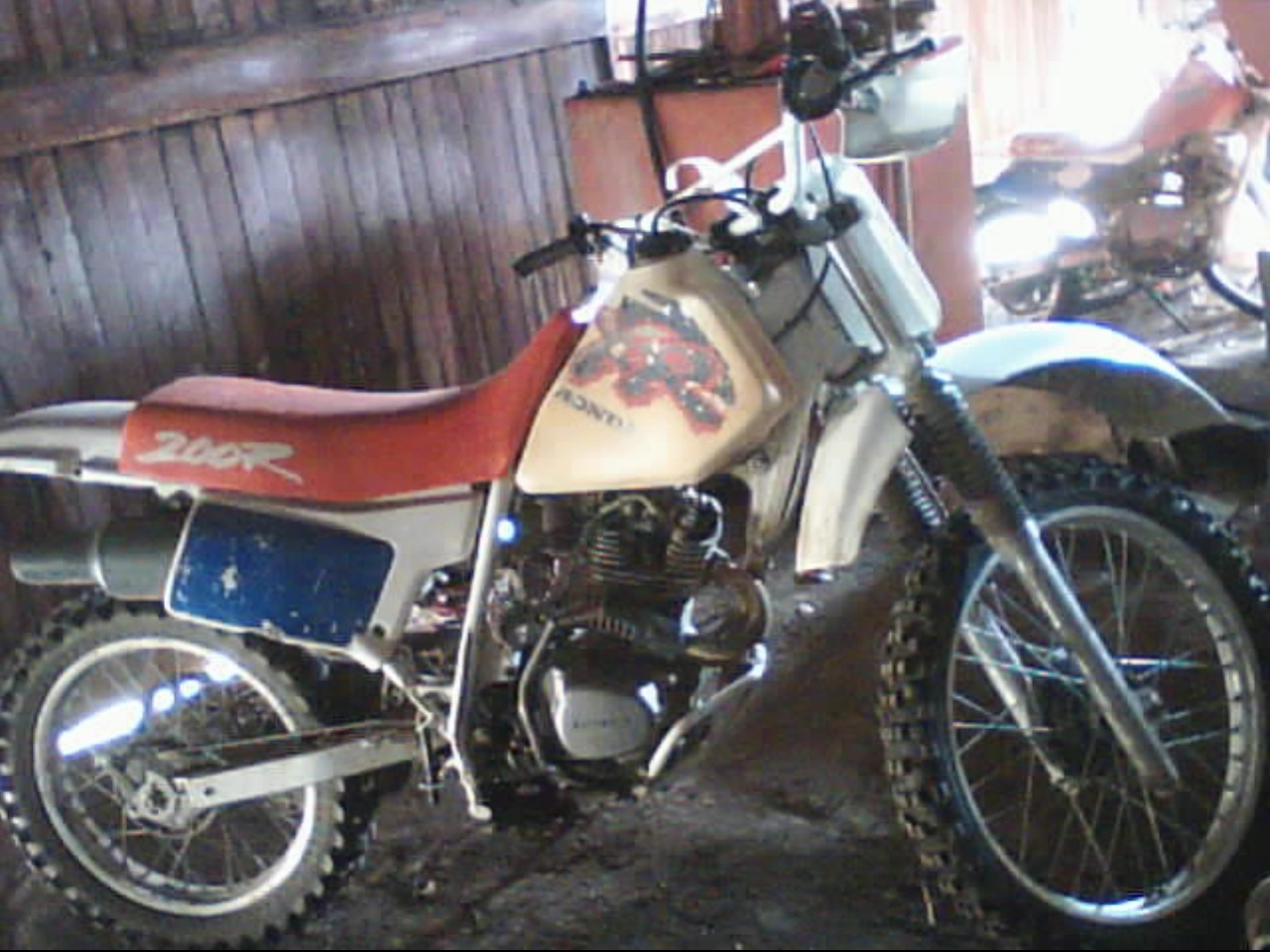 Honda dirt bike